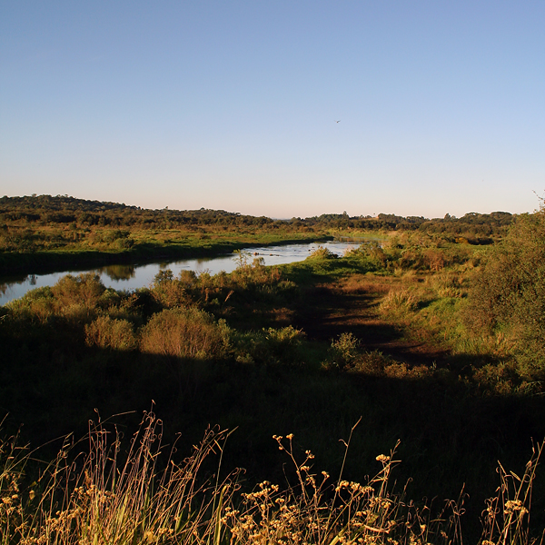 Iguaçu River, south of Curitiba (Brasil)